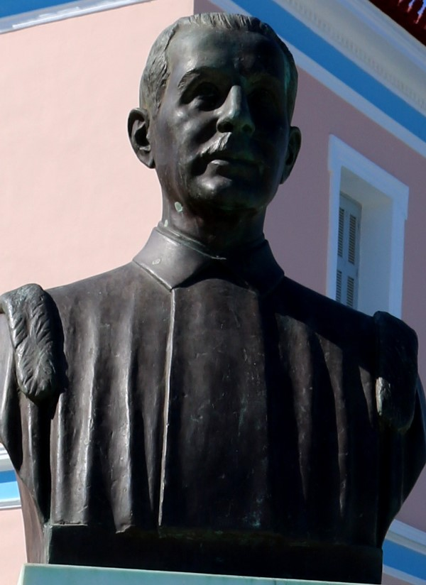 City Hall Gythio, with statue in the foreground, Laconia Prefecture, Region Peloponnese, Greek